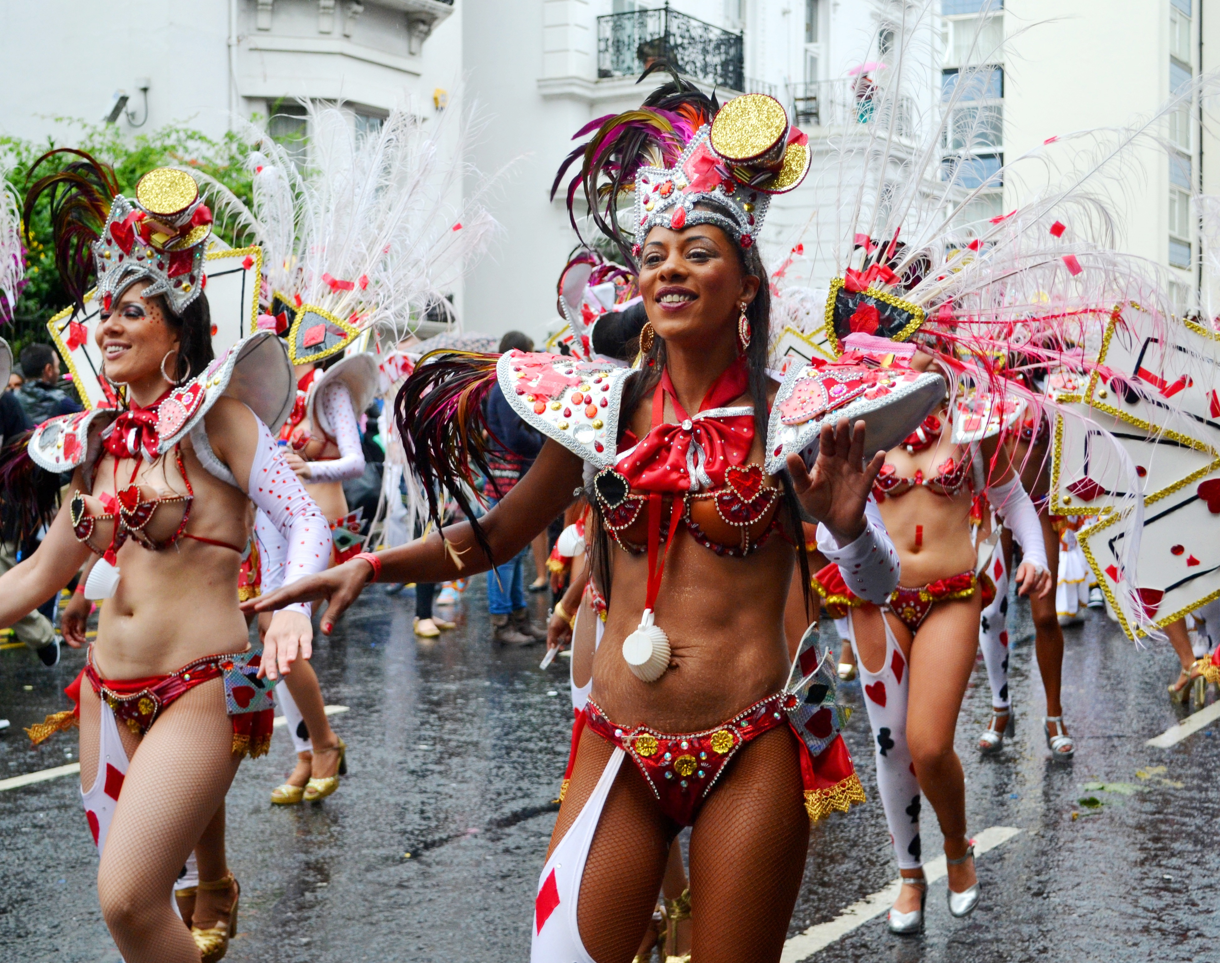 Notting Hill Carnival 2014, London, U.K.